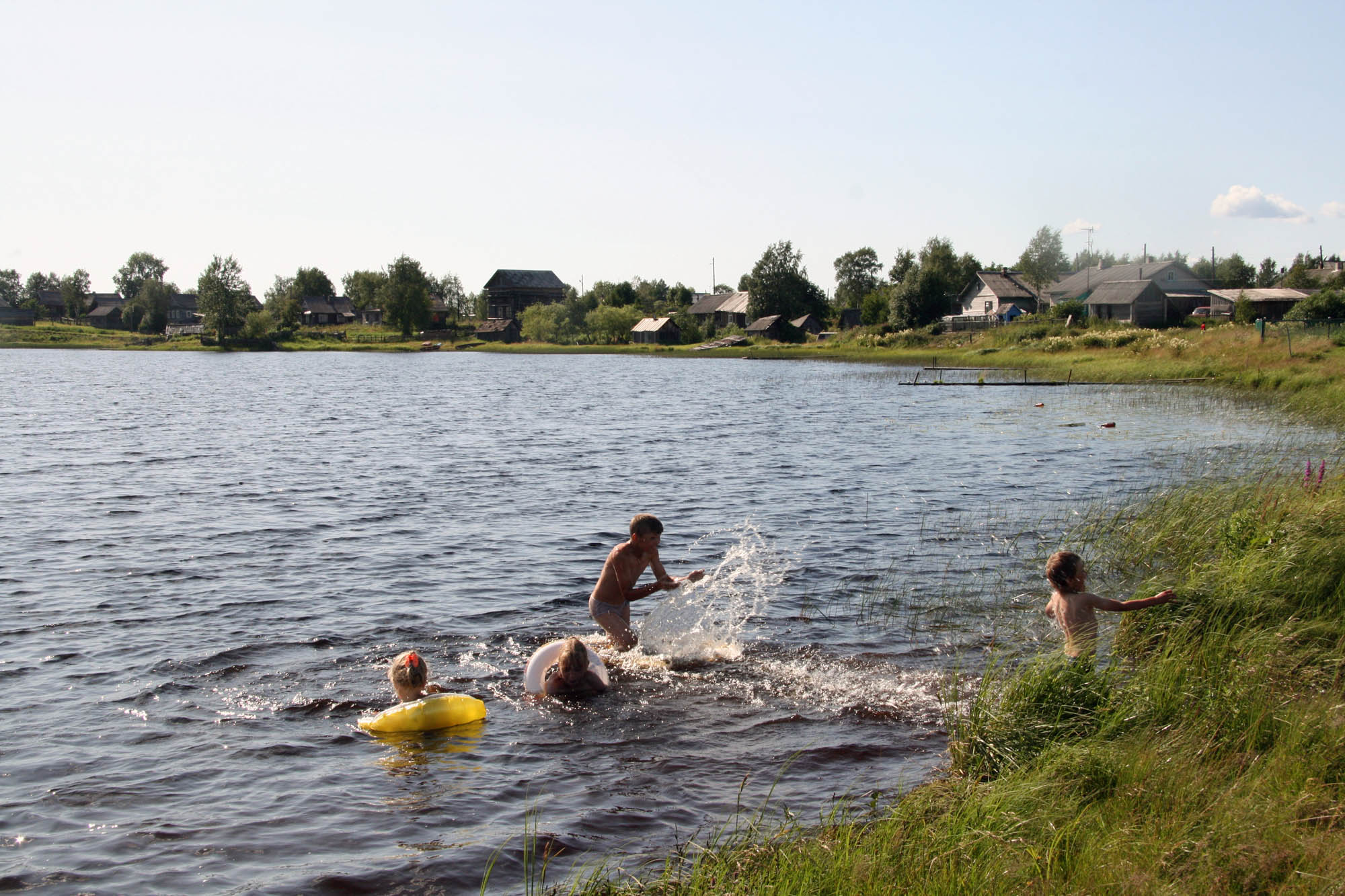 Kotkatjärvi village in Karelia